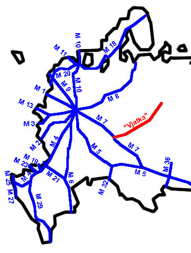 Federal highway A119 “Vyatka”, based on the image File:Vjatka_karte_RF.jpg